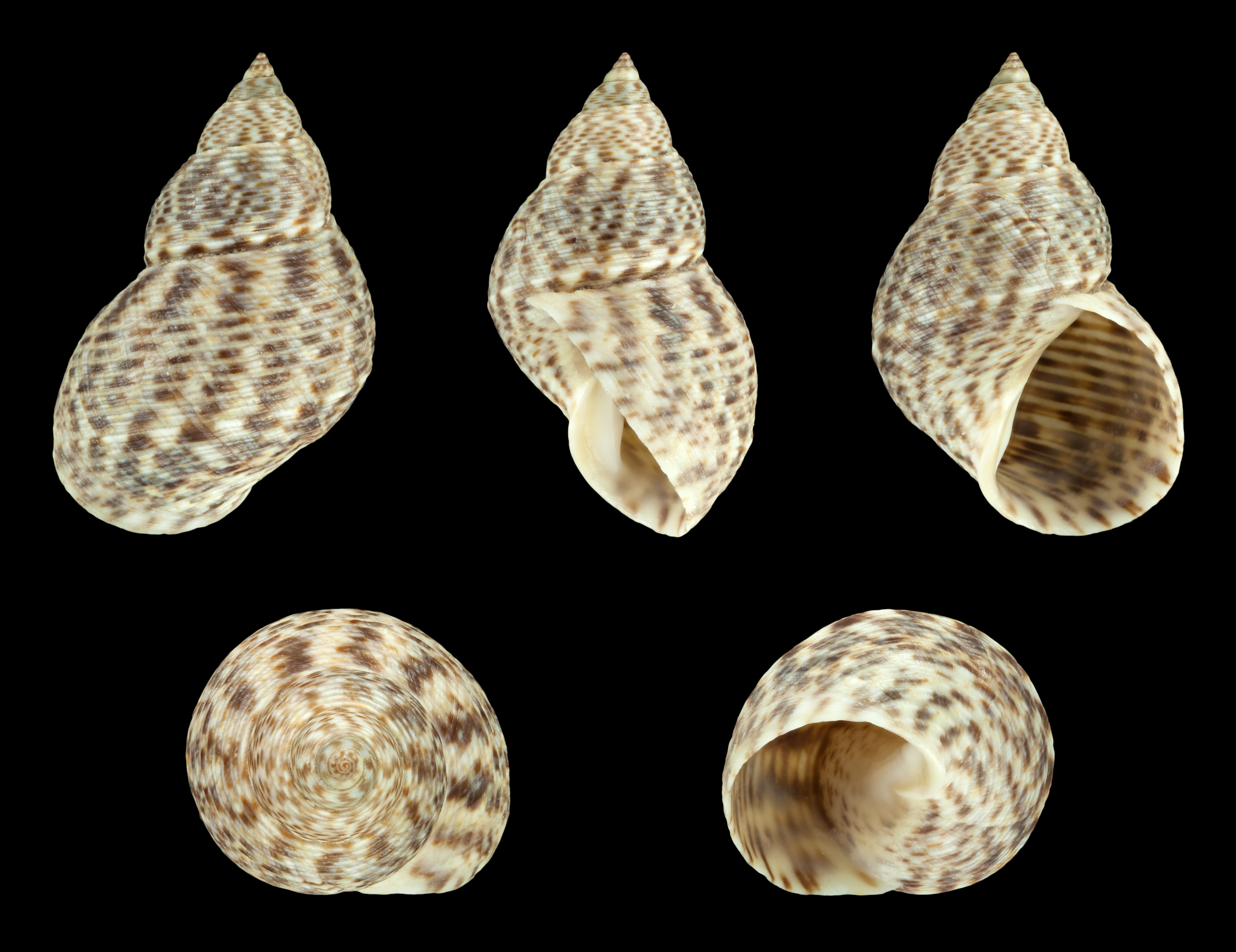 Littoraria angulifera (Lamarck, 1822), Mangrove Periwinkle; length 3.1 cm; Originating from Brazil; Shell of own collection, therefore not geocoded.